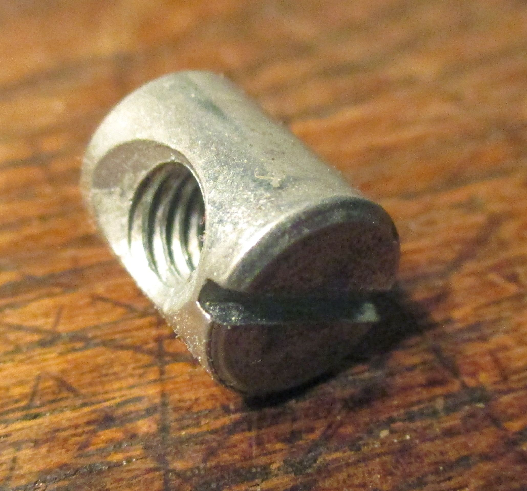 Connecting block